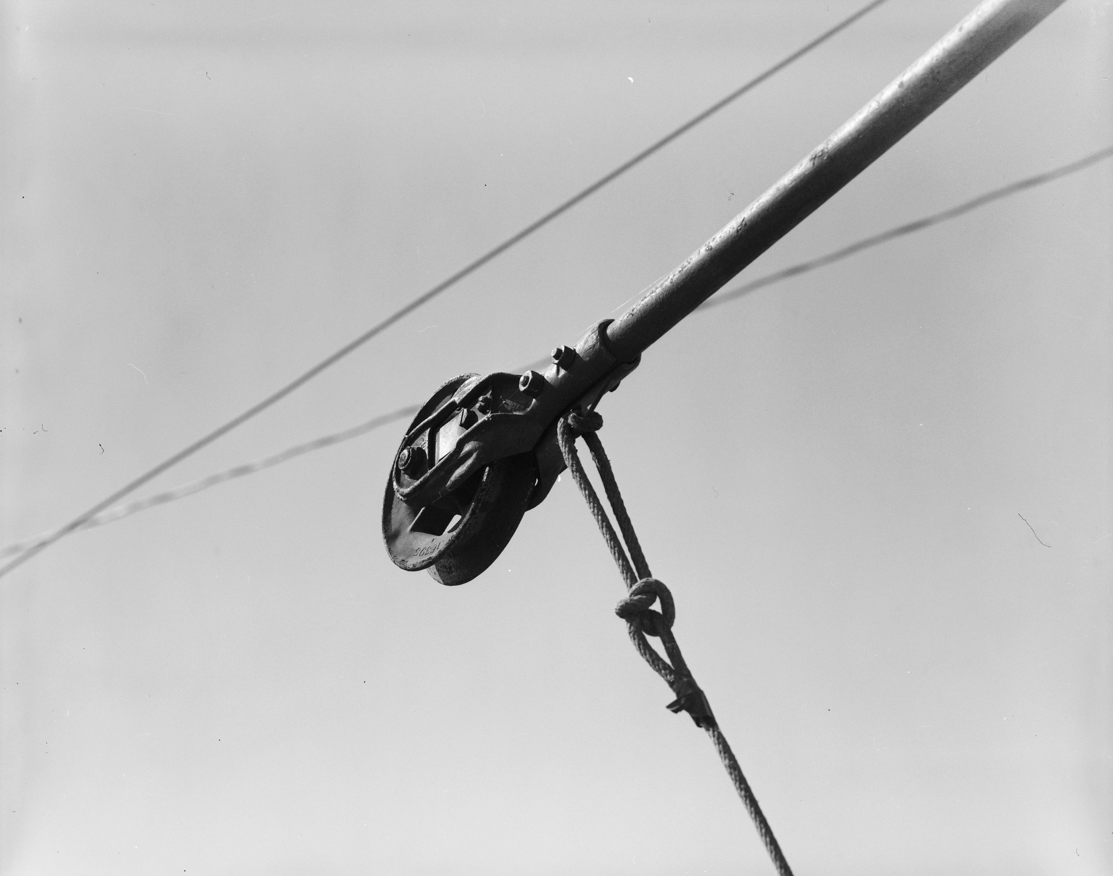 DETAIL OF TROLLEY POLE AND PICK-UP WHEEL HAER WASH,39-YAK.V,1-H-4 / Yakima Valley Transportation Company Interurban Railroad, Electric Locomotive No. 297